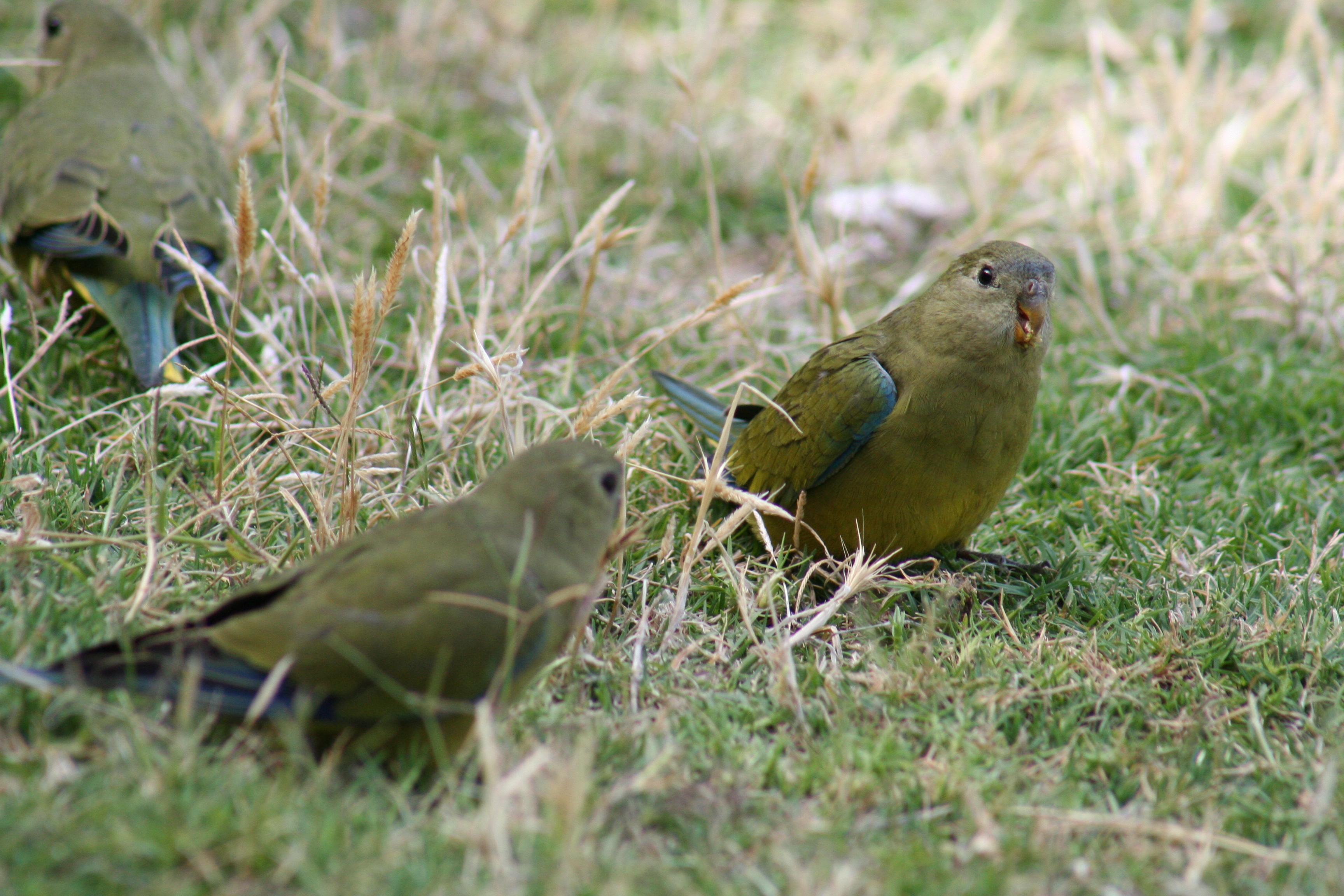 A juvenile rock parrot (orangeish bill) facing camera feeding on grass on Rottnest Island